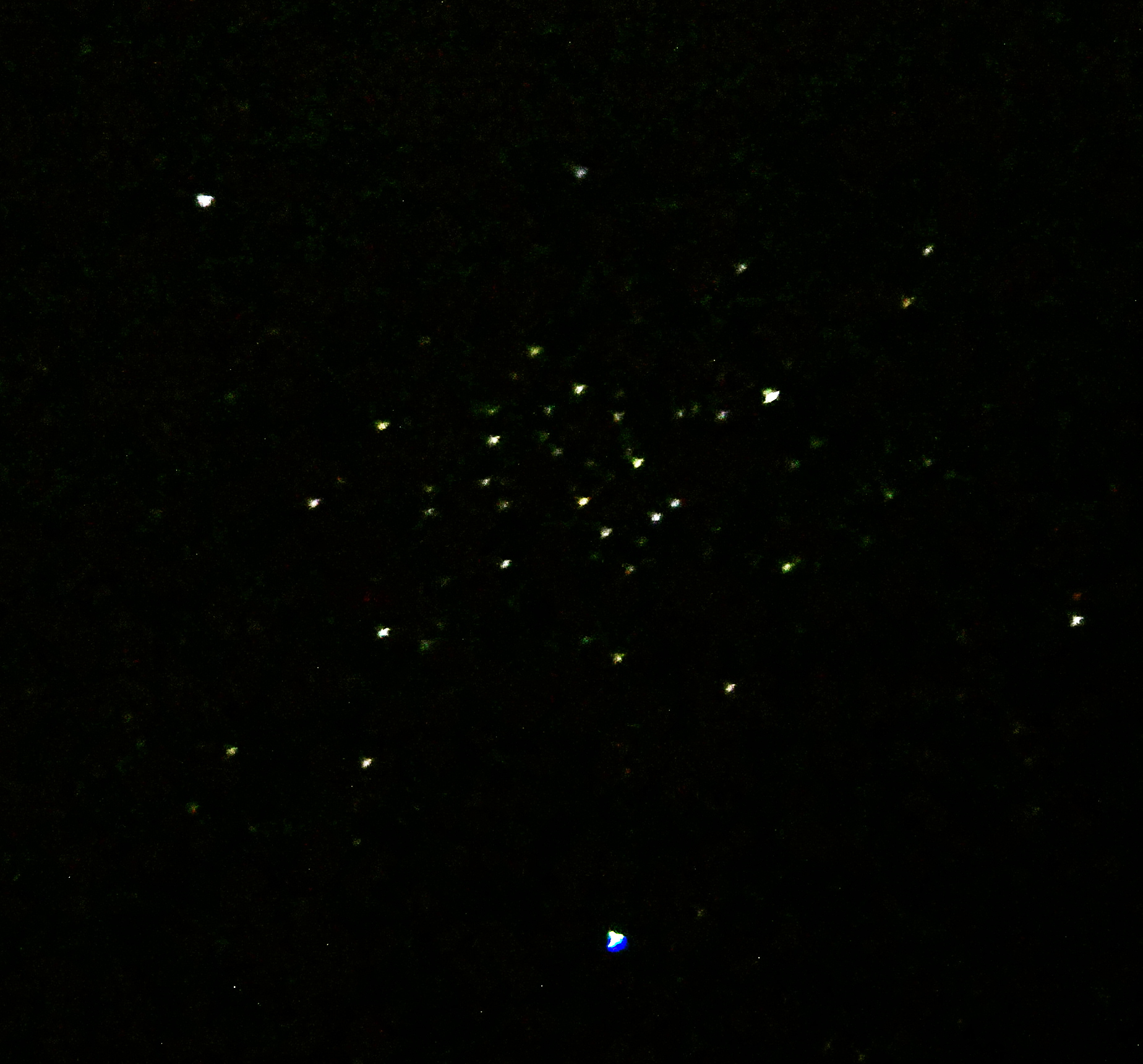 The open cluster Messier 23. Photographed through a 36mm eyepiece from a SKYWATCHER DOBSONIAN 8″ telescope. Contrast has been enhaced.